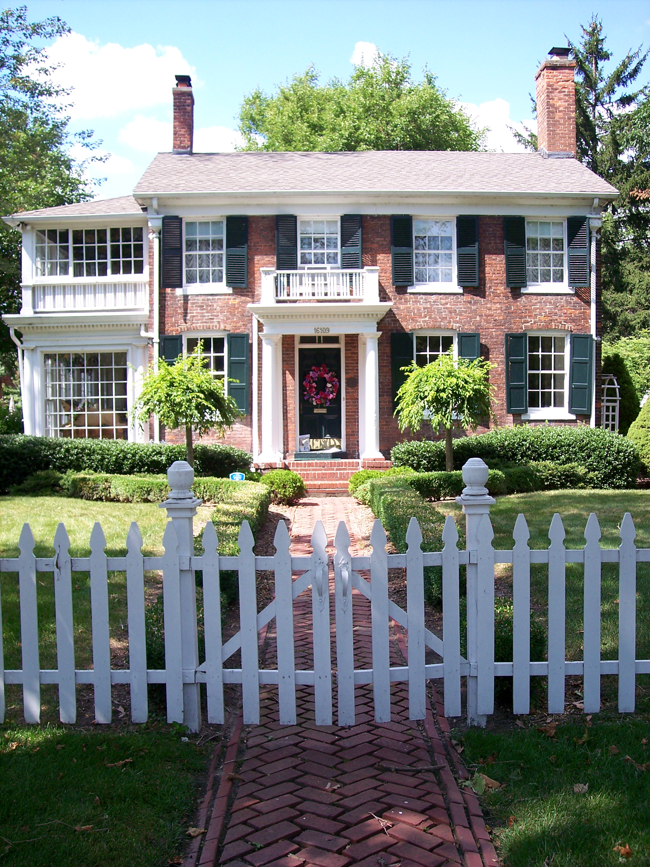 The historic Buck-Wardwell home, built in 1849[1], as the first brick house in Grosse Pointe. Located on Jefferson Avenue in Grosse Pointe Park, Michigan.